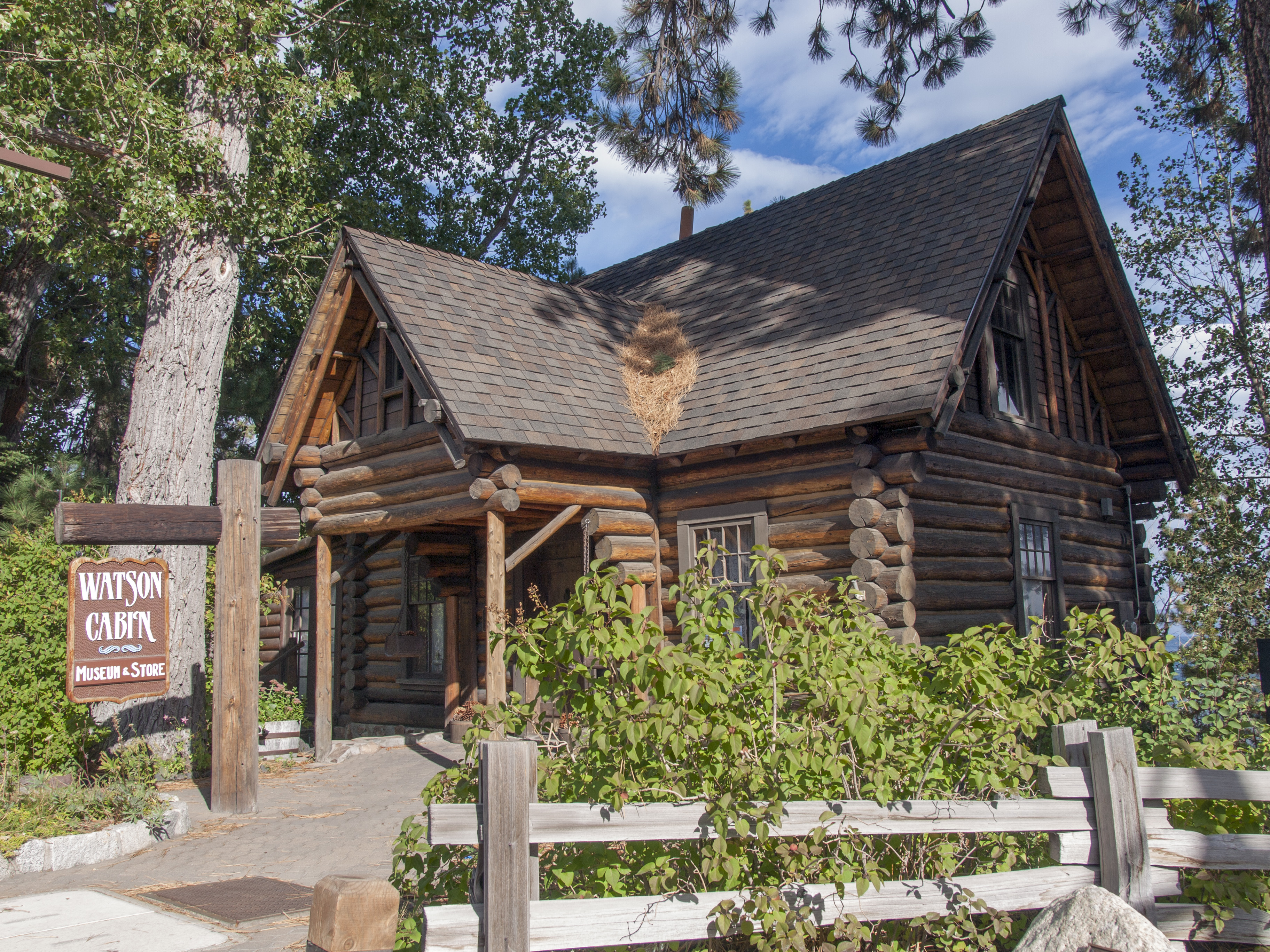 Watson Log Cabin, Tahoe, Placer County, California.